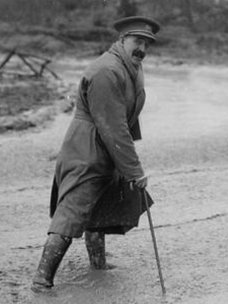 The war artist Lieutenant Muirhead Bone crossing a muddy road, Maricourt, September 1916.